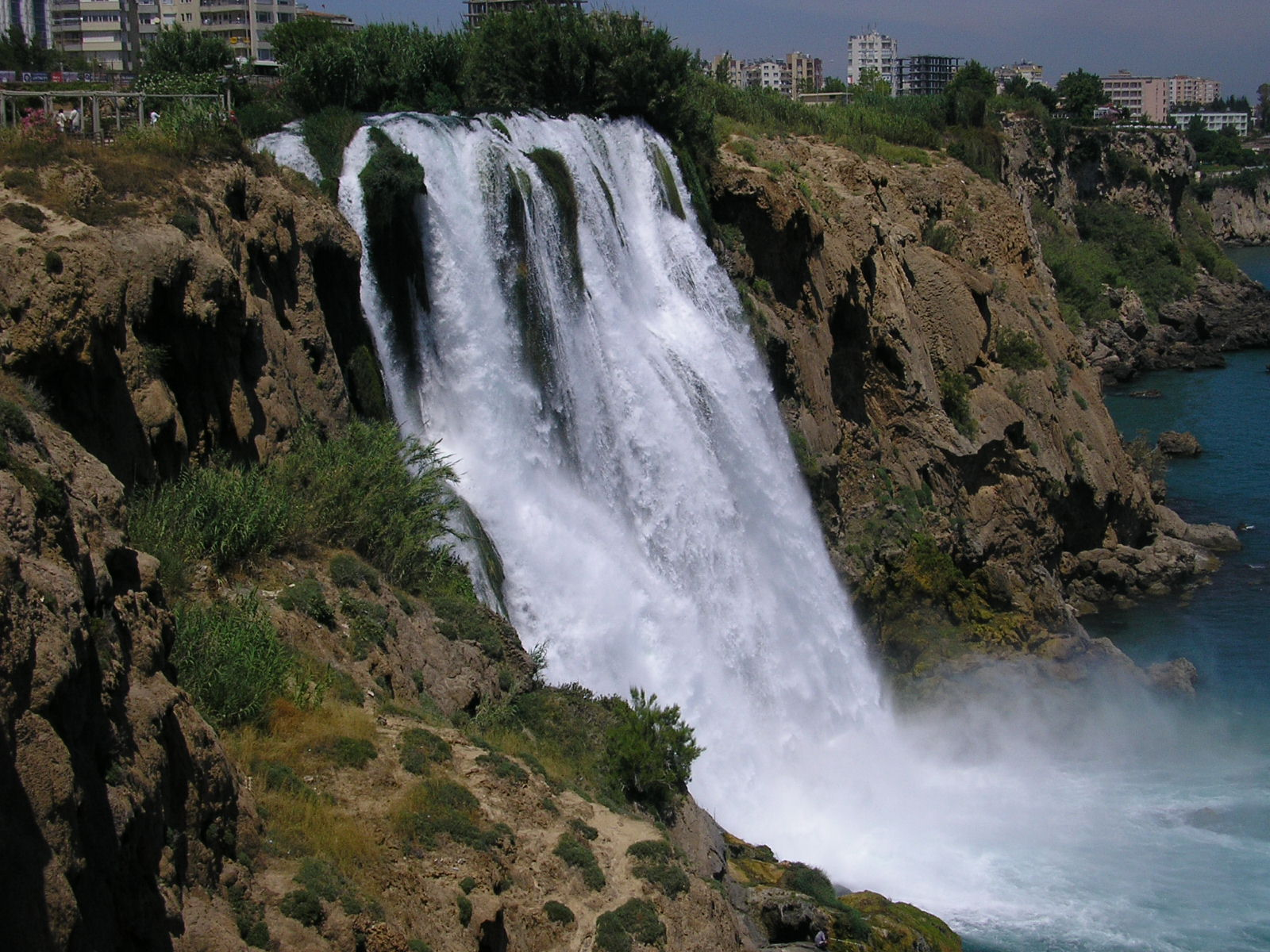 dudenfall(antalya) Pakos